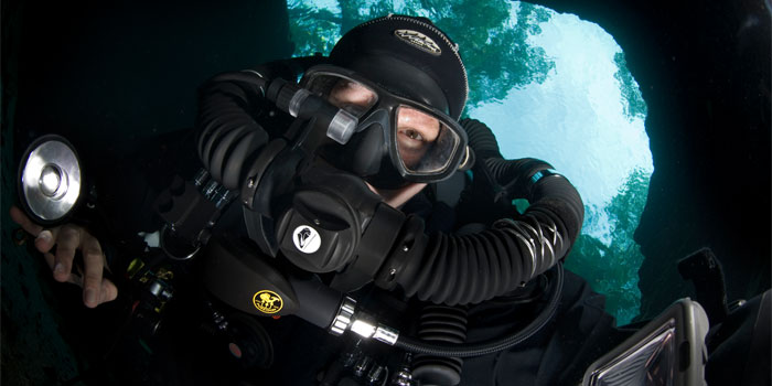 Jill Heinerth - portrait while diving a rebreather